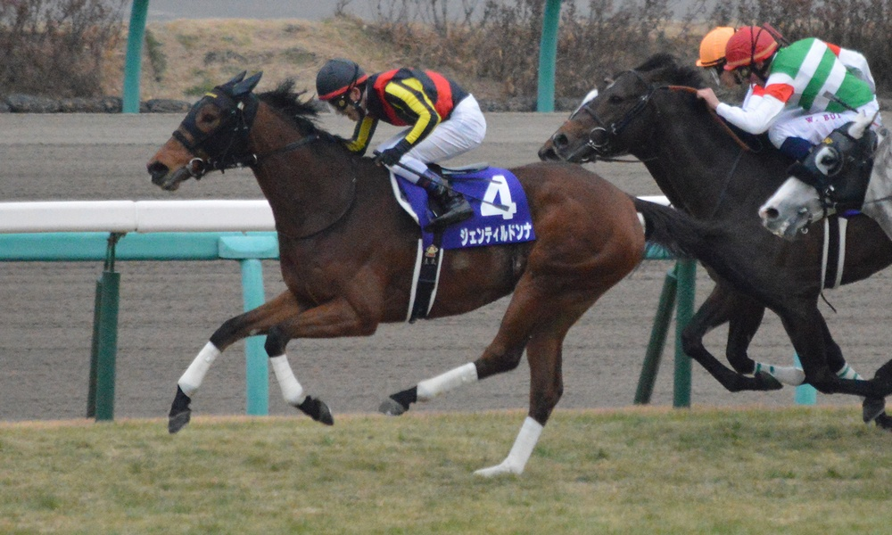 Japanese race horse Gentildonna at Nakayama racecourse. Nakayama (JPN) 28 Dec 2014Arima Kinen (The Grand Prix) (Grade 1) (3yo+) (1m4f110y) Firm RankHorse NameOddsAgeWgtTrainerJockey1stGentildonna (JPN)77/10M58-9Sei IshizakaKeita Tosaki2ndTo The World (JPN)30/1C38-9Yasutoshi IkeeWilliam BuickOthers are omitted. (16 horses entered in a race.)